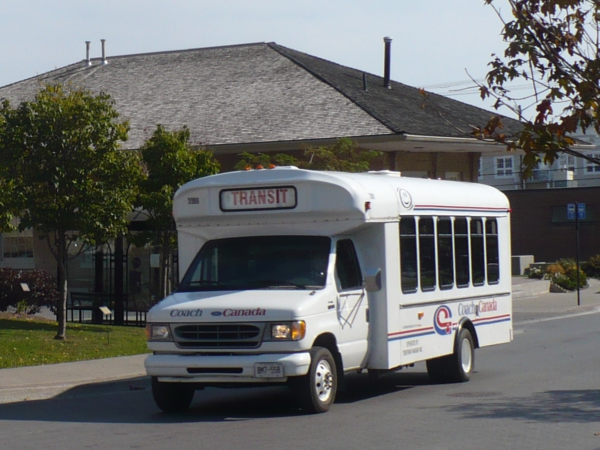 Cobourg Transit bus operated by Coach Canada subsidiary Trentway Wagar